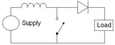 I created this schematic of a boost circuit.